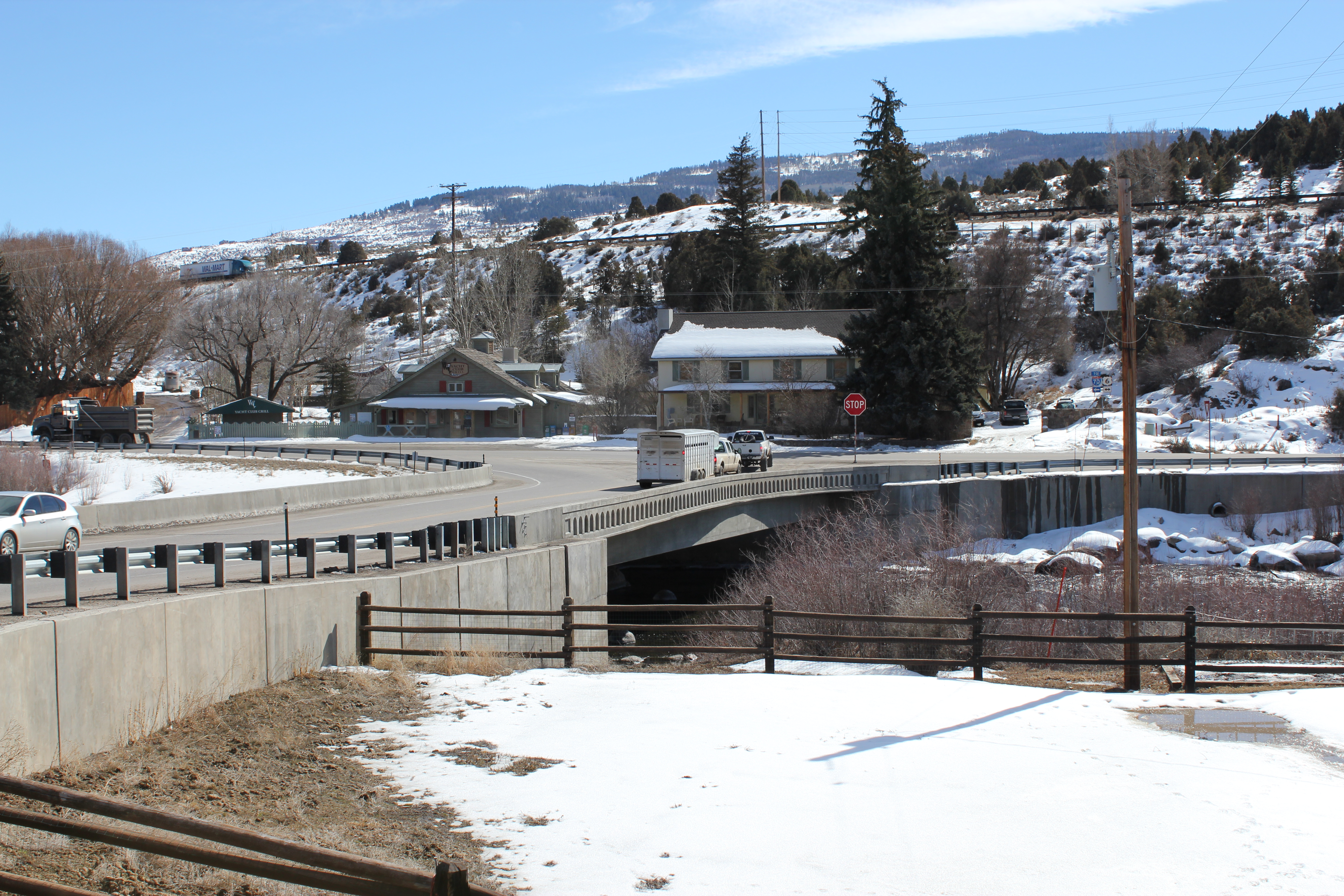 Wolcott, Colorado. The intersection is where U.S. Highway 6 (left - right) and Colorado Highway 131 meet. The bridge goes over the Eagle River.